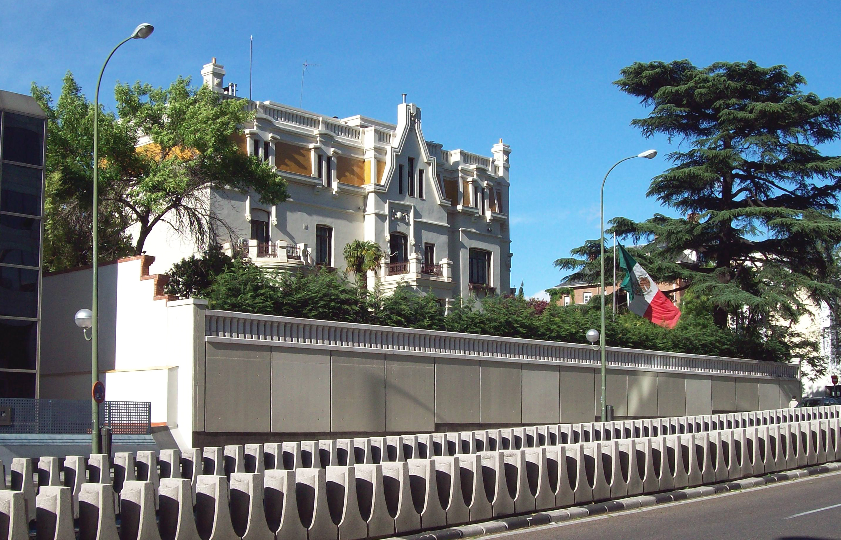 The Residence of the Mexican Embassy in Madrid (Spain), at 13 Calle del Pinar (street) in Chamartín district. Building was projected in 1911 by architects Antonio Palacios and Joaquín Otamendi and built from 1911 to 1913.